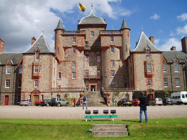 Thirlestane Castle. One of the most beautiful castles in the country, Built as a tower house originally around 1590 it was substantially altered around 1840 by Sir David Bryce when the central tower was added to and two new wings were added. A major restoration was started in the 1970's and in 1984 the castle was passed into the hands of a Charitable Trust which was then endowed by the National Heritage Memorial Fund. This partnership between the Public and private sector has since become known as the Thirlestane Formula and has been put into practice at many historic houses throughout Britain.